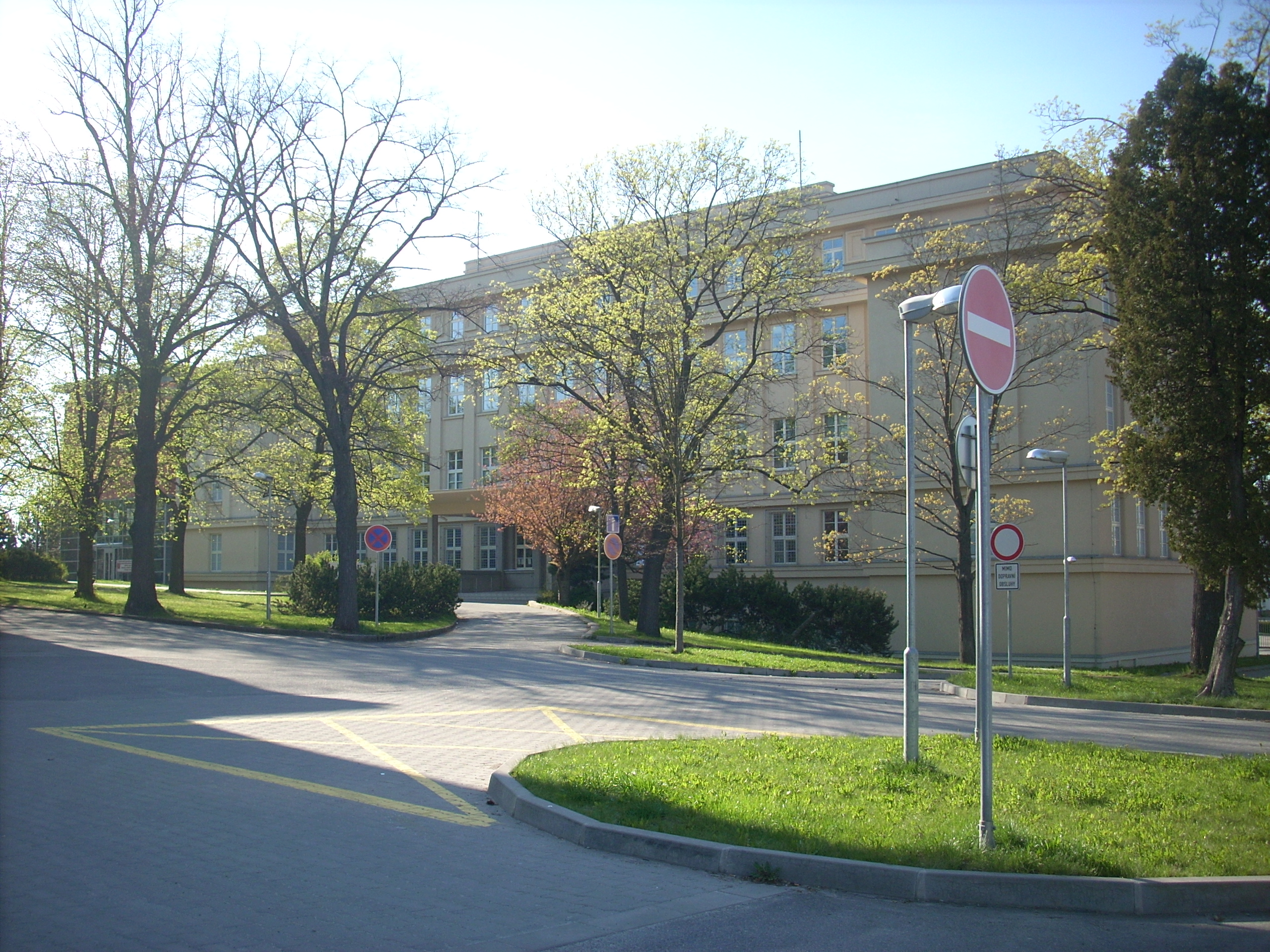 County Court Jihlava - building